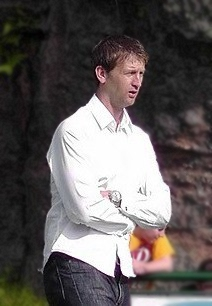 Steffen Menze in June 2011.